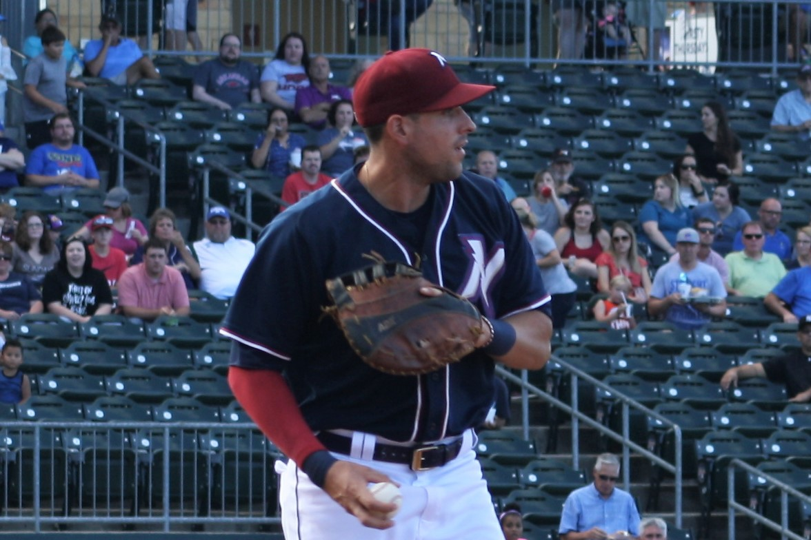 Alex Liddi plays baseball for the Northwest Arkansas Naturals